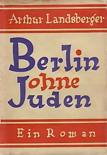 Berlin without Jews (Berlin ohne Juden), written by Artur Landsberger, cover 1925